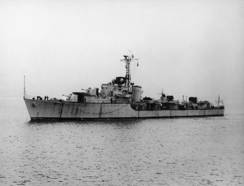 Photograph of British C class destroyer HMS Cromwell.